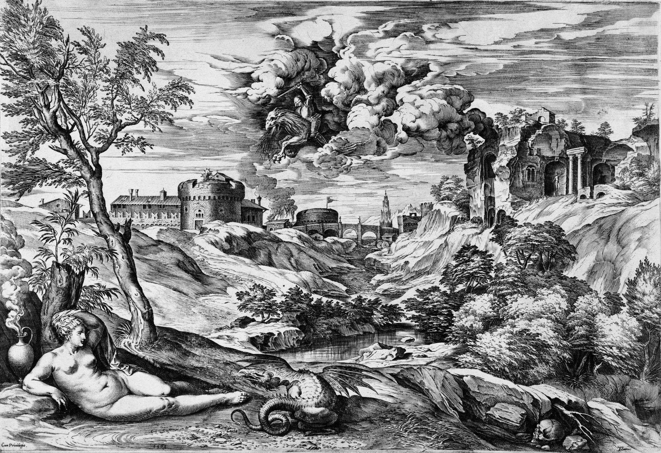 Holland, 1563 Prints; engravings Engraving Mary Stansbury Ruiz Bequest (M.88.91.95) Prints and Drawings